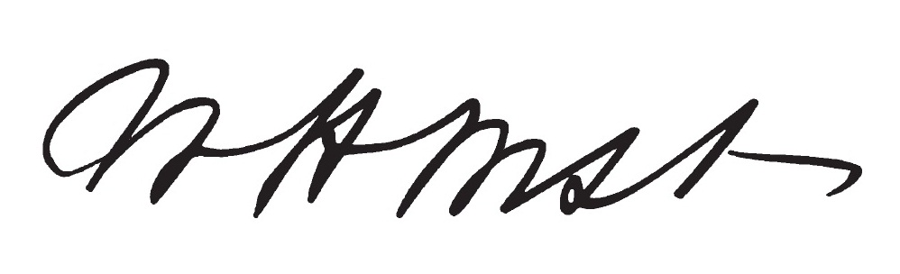 William H. West, Judge of Ohio Supreme Court and Ohio Attorney General.